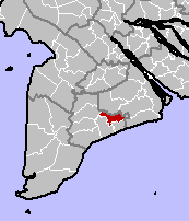 Vinh Loi District, Bac Lieu Province, Vietnam.